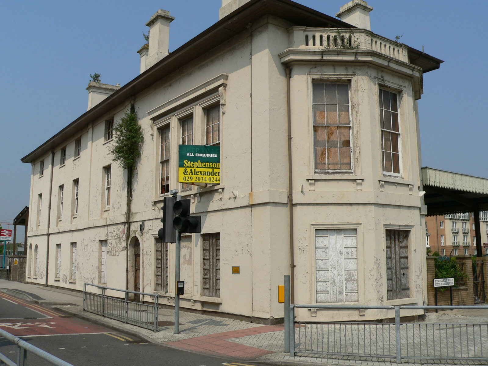 The former station building at Cardiff Bay railway station is now disused, this photograph is looking from accross the street at the southern end of the station. The canopy is over an equally disused platform.